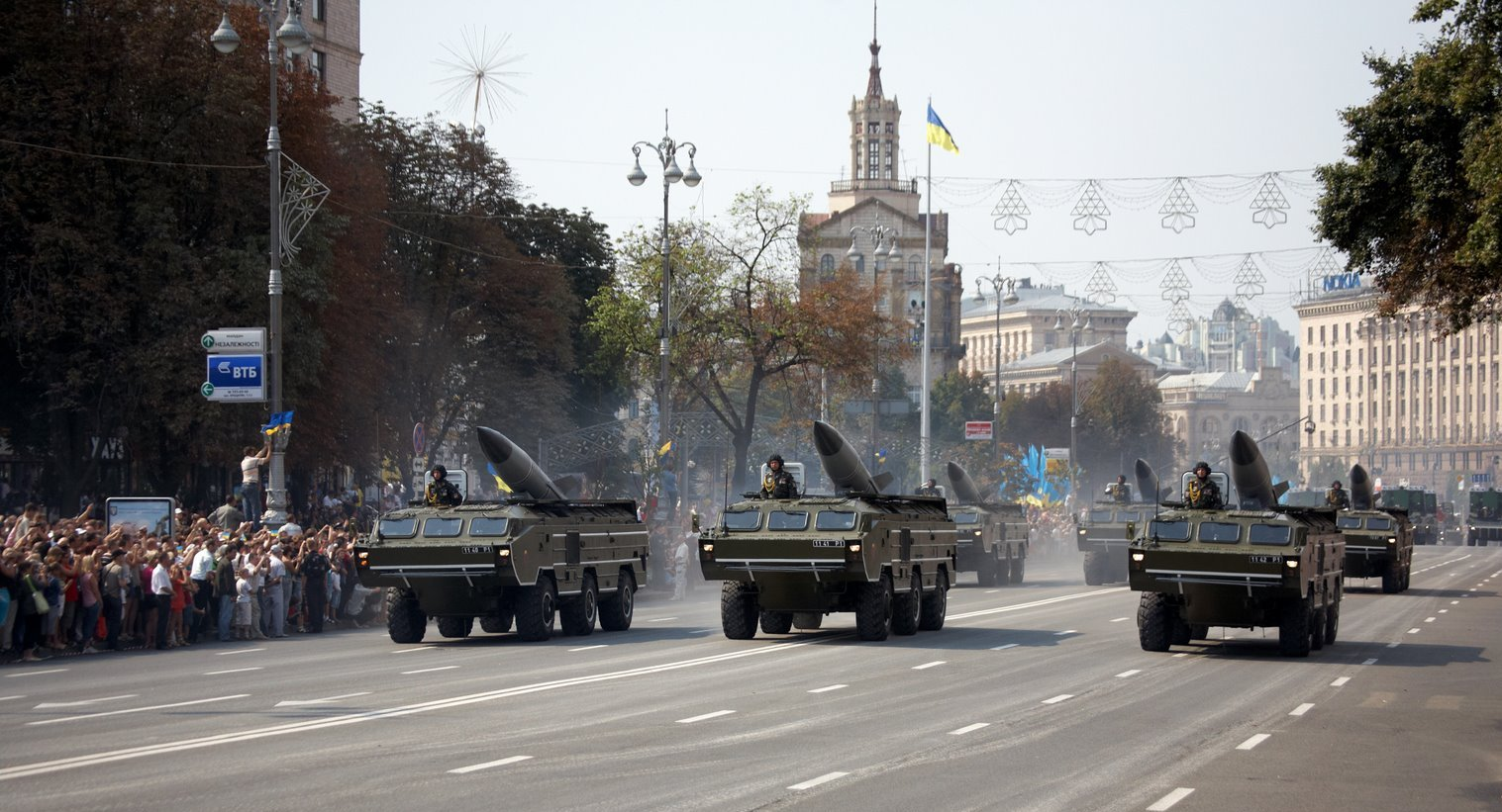 Ukrainian OTR-21 Tochka TELs during the Independence Day parade in Kiev, Ukraine in 2008.